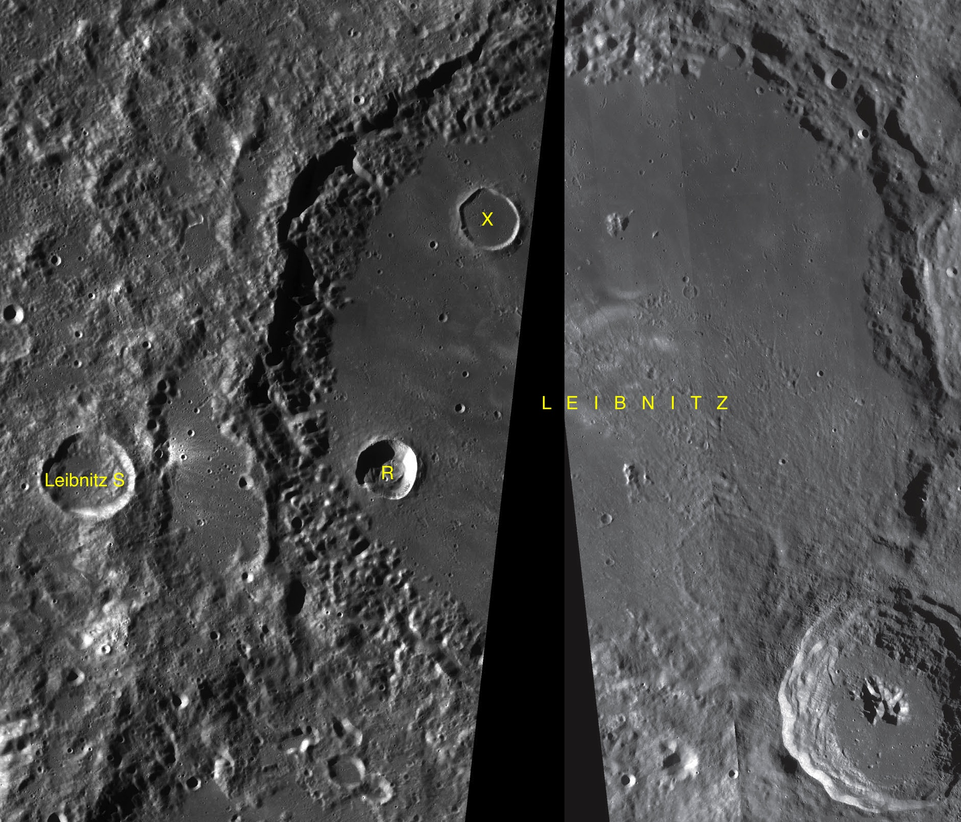 Parts of the charts LAC-119, LAC-120 used for the presentation